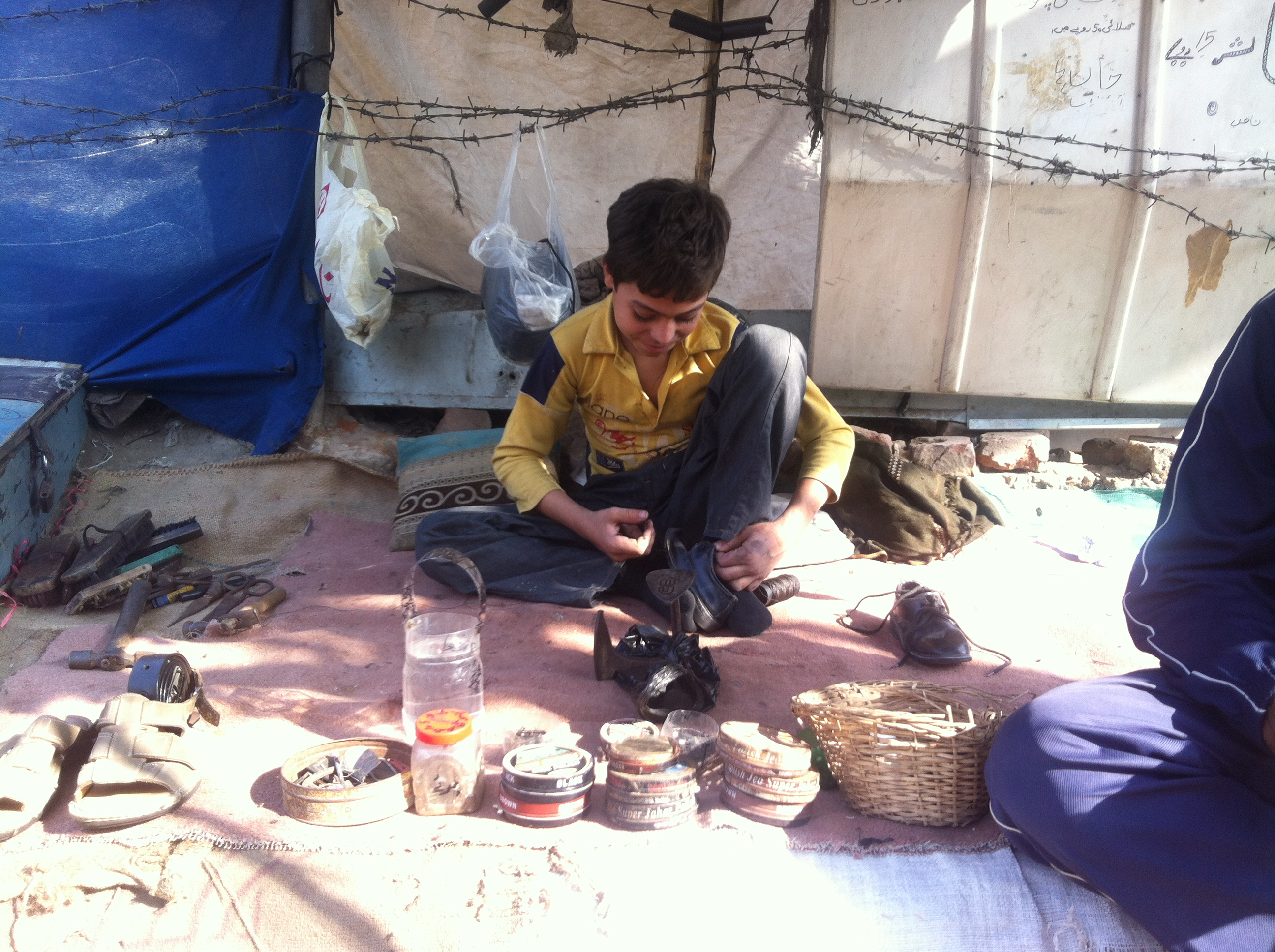 Pathan cobbler boy Lahore street side.